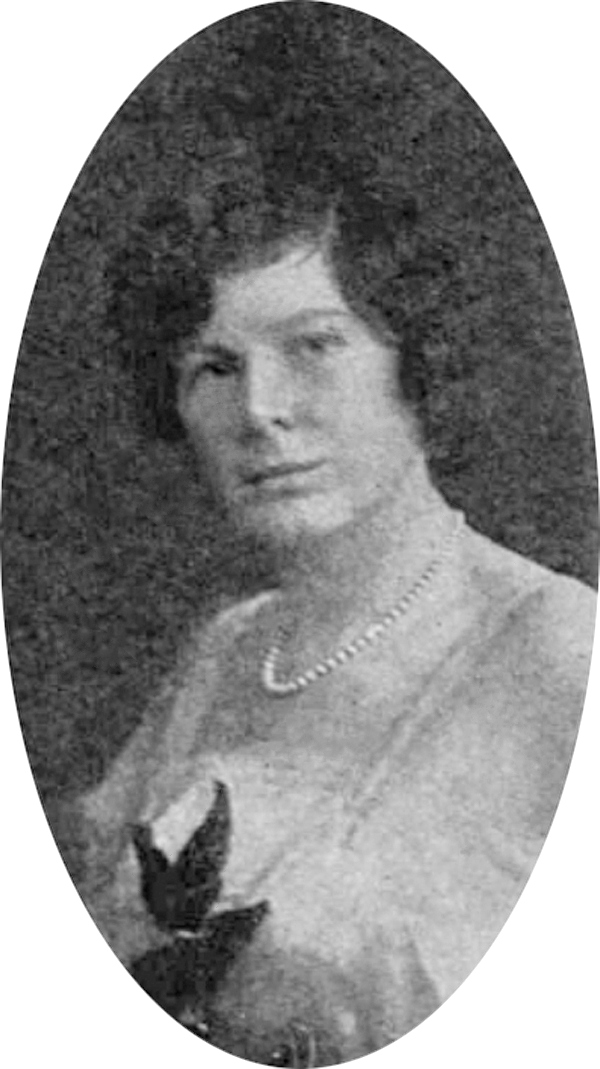 Portrait of Lady Kathleen Curzon Herrick of Beaumanor Hall in 1918